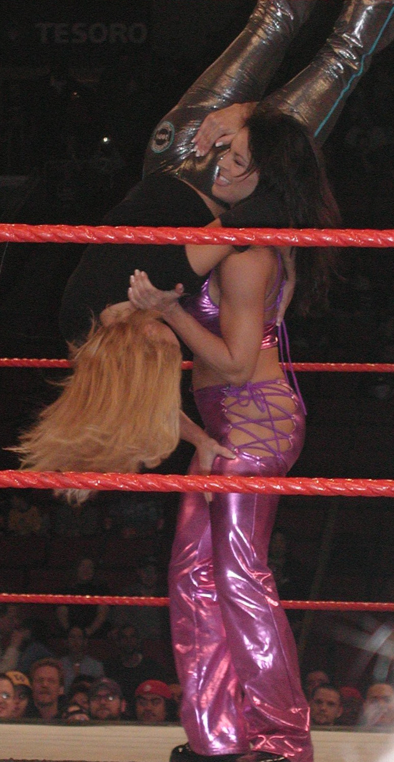 Ivory performing a scoop slam on Trish Stratus. KeyArena, Seattle, WA, March 31, 2003.